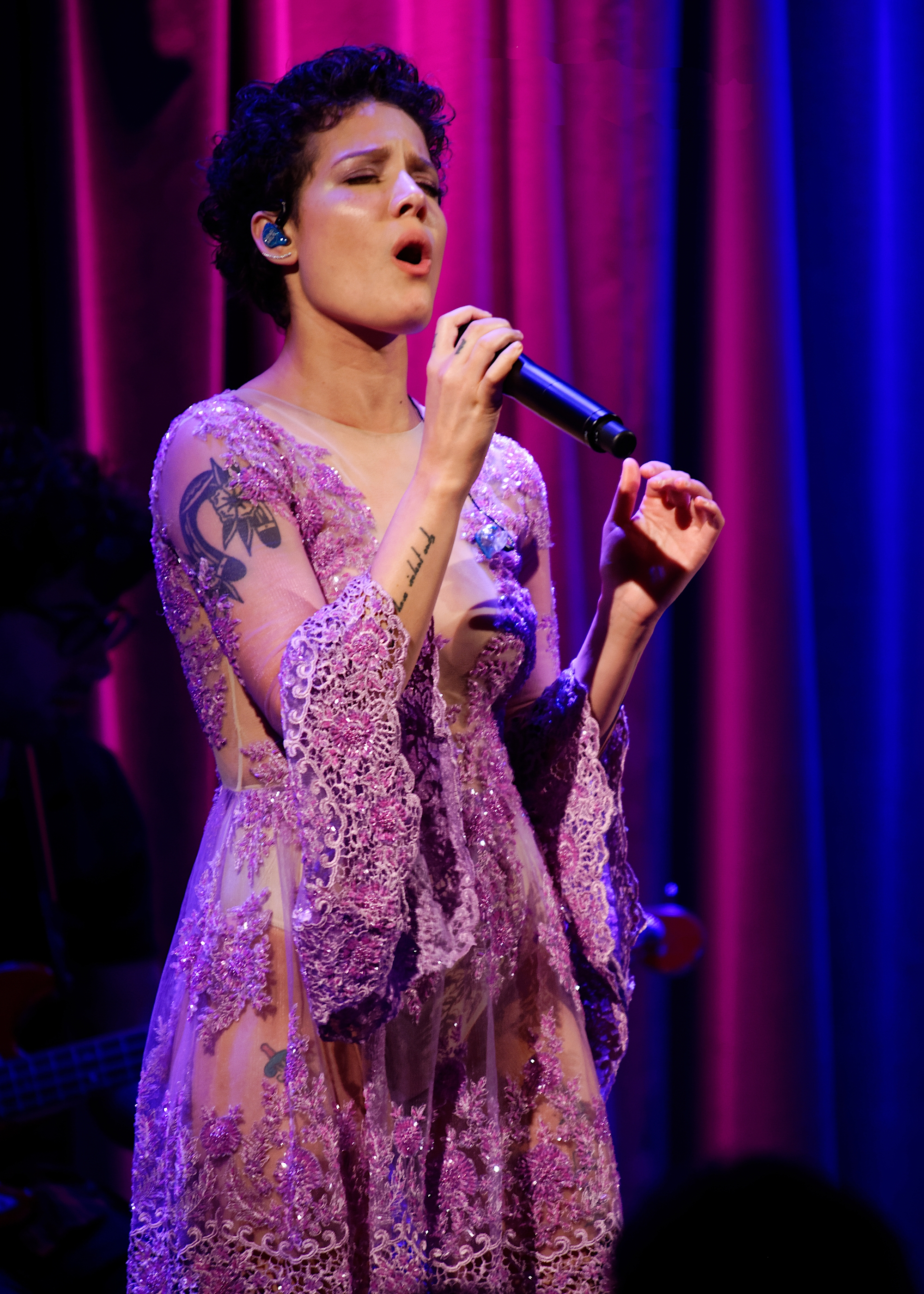 Halsey (Ashley Frangipane) interview and live performance at The Grammy Museum in downtown Los Angeles California on Monday May 23rd, 2016.